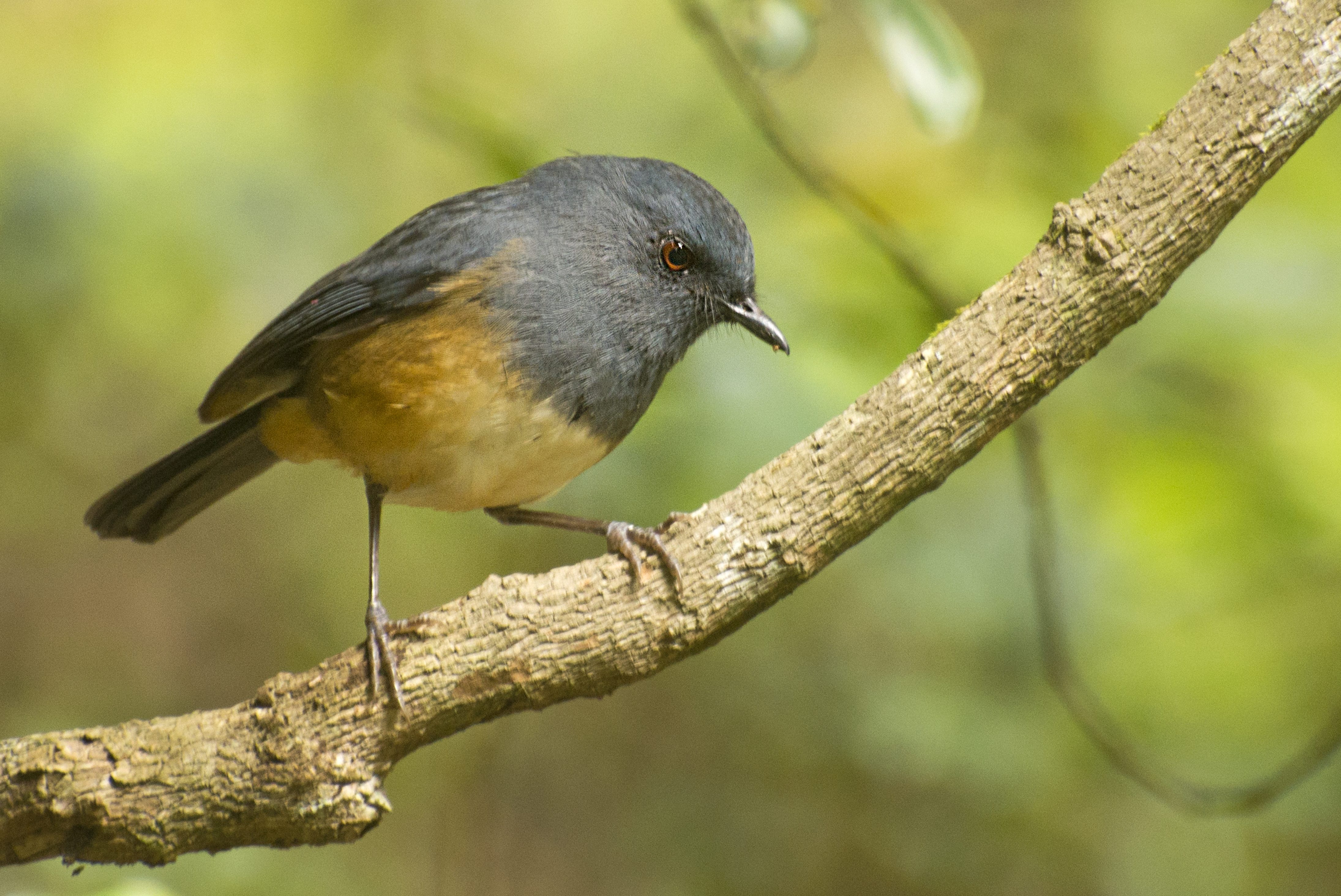 Image taken in Ooty in Western Ghats of Southern India